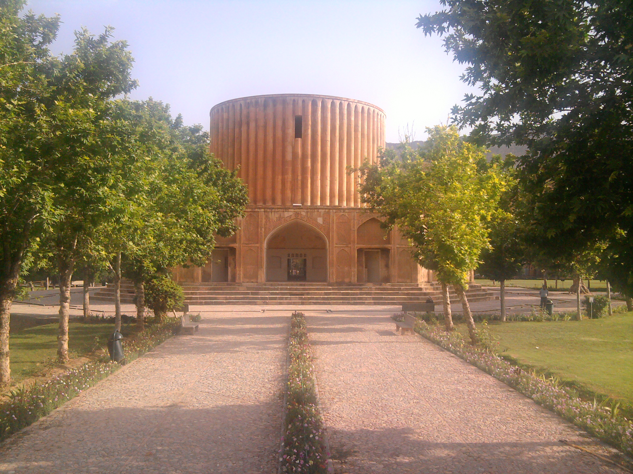 this building is for Afsharid dynasty